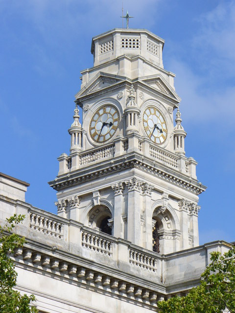 Guildhall Clock Tower This is a noticeable feature on Portsmouth's skyline. The Guildhall was restored after WW2.